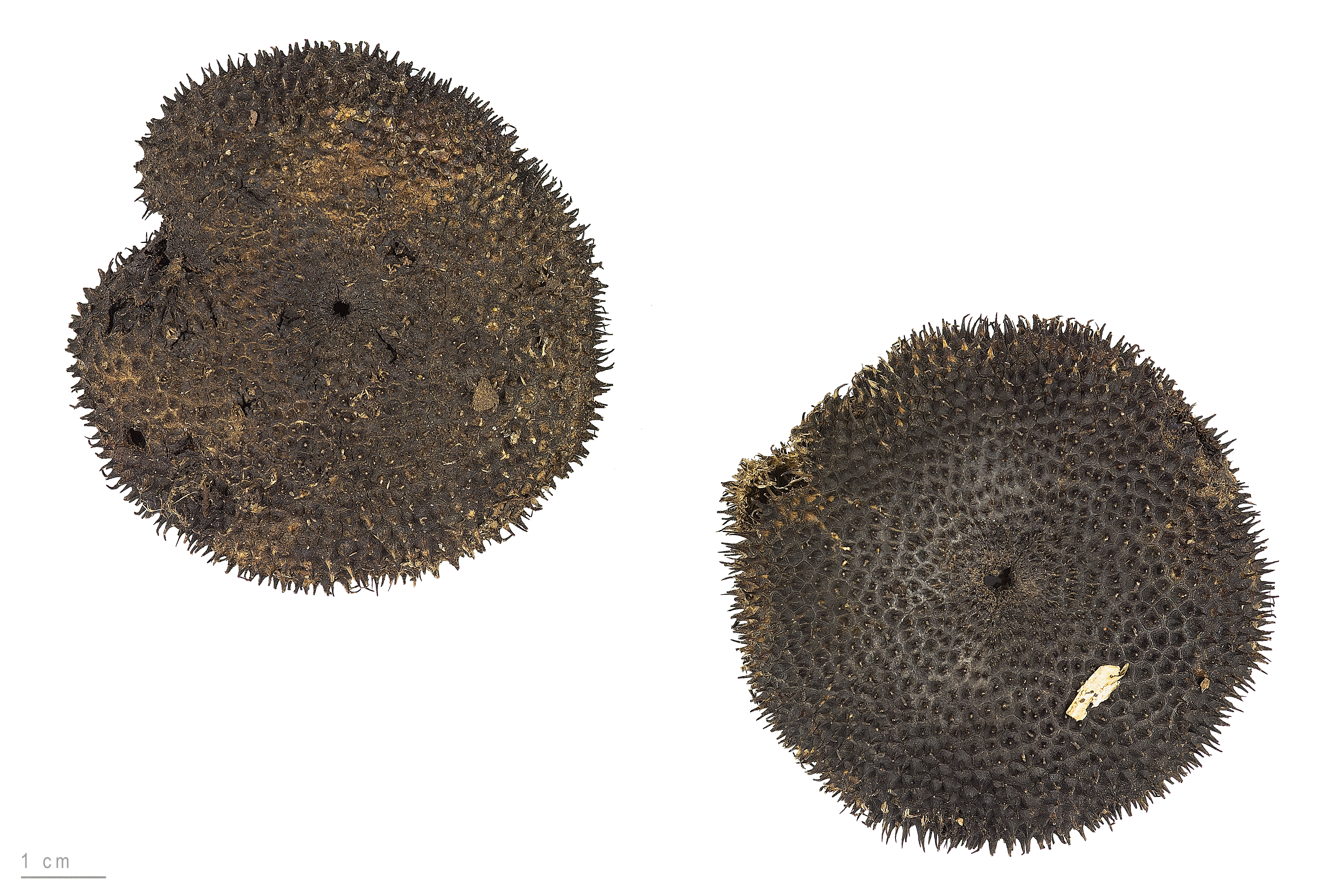 Apeiba echinata , fruits